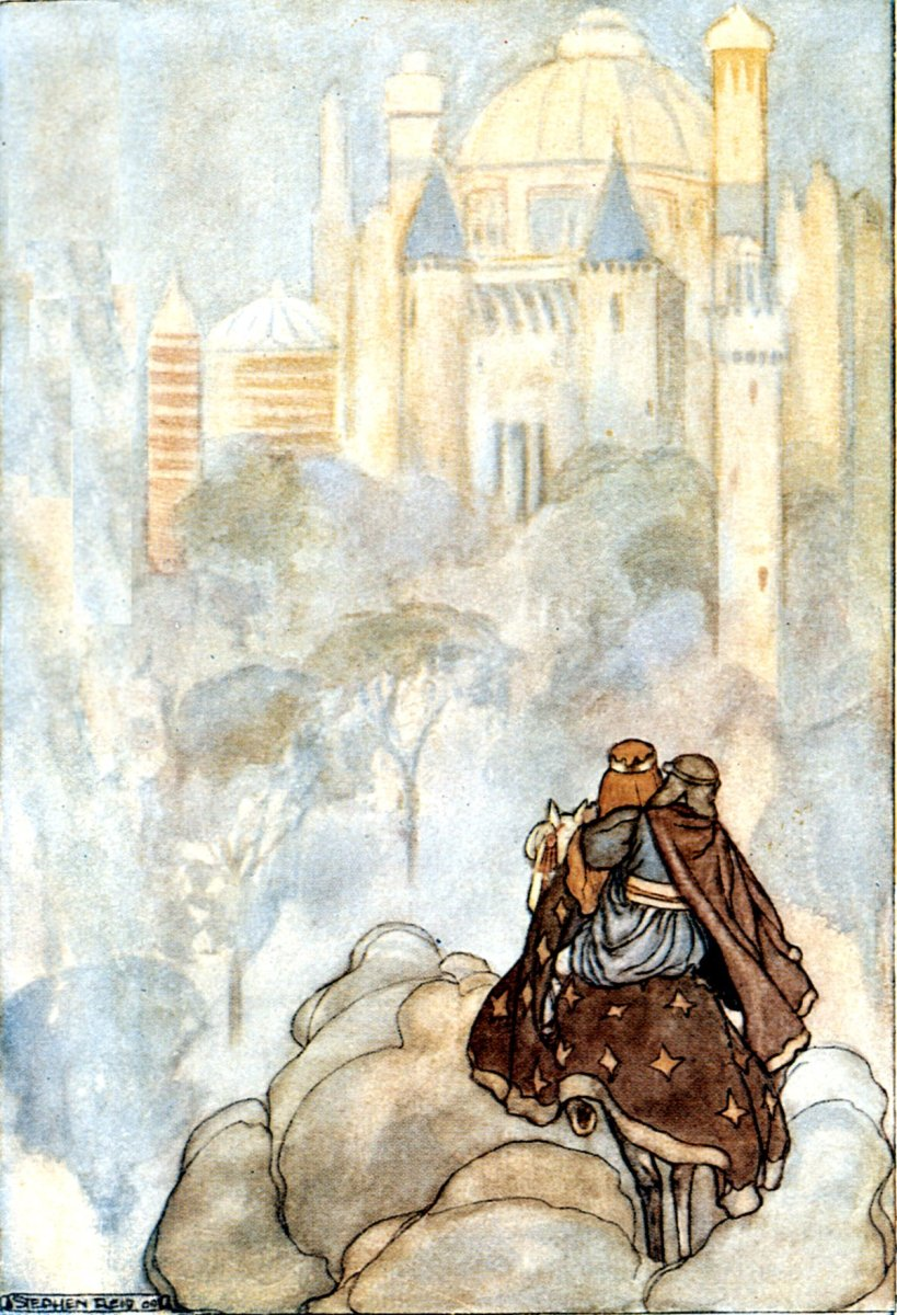 "They rode up to a stately palace" The High Deeds of Finn and other Bardic Romances of Ancient Ireland, by T. W. Rolleston, et al, Illustrated by Stephen Reid